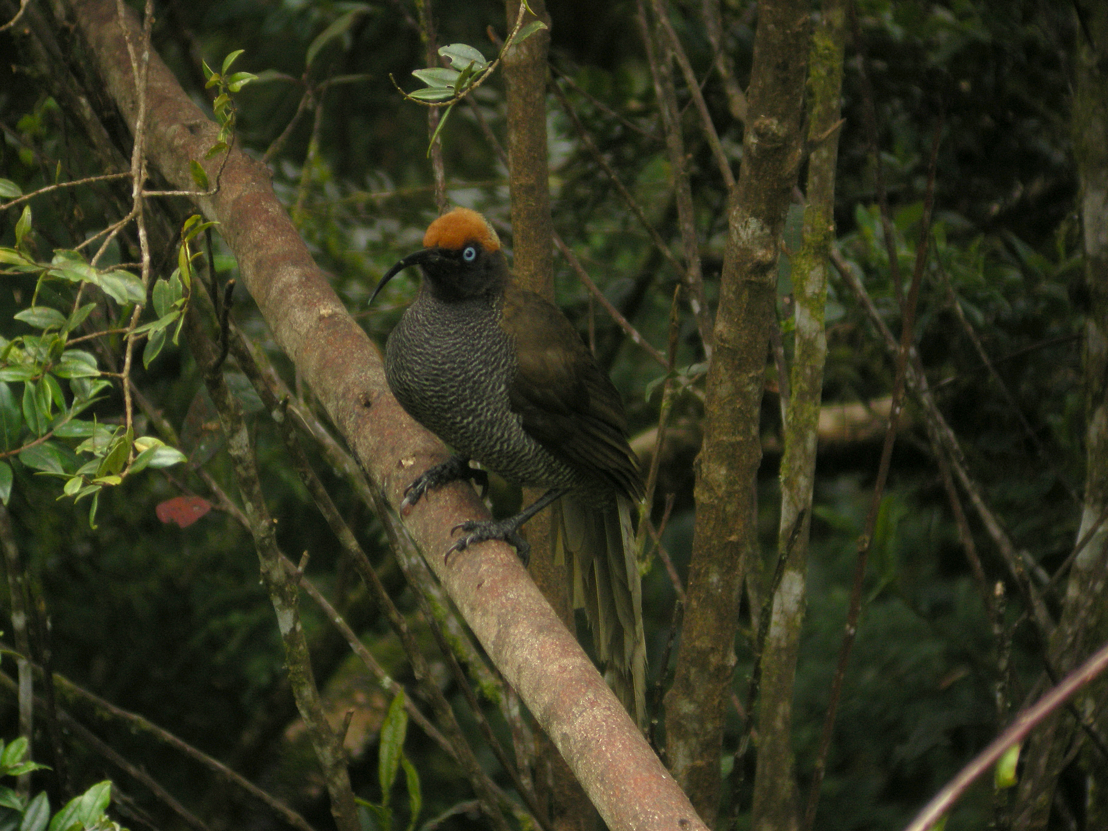 Brown Sicklebill in Papua New Guinea.